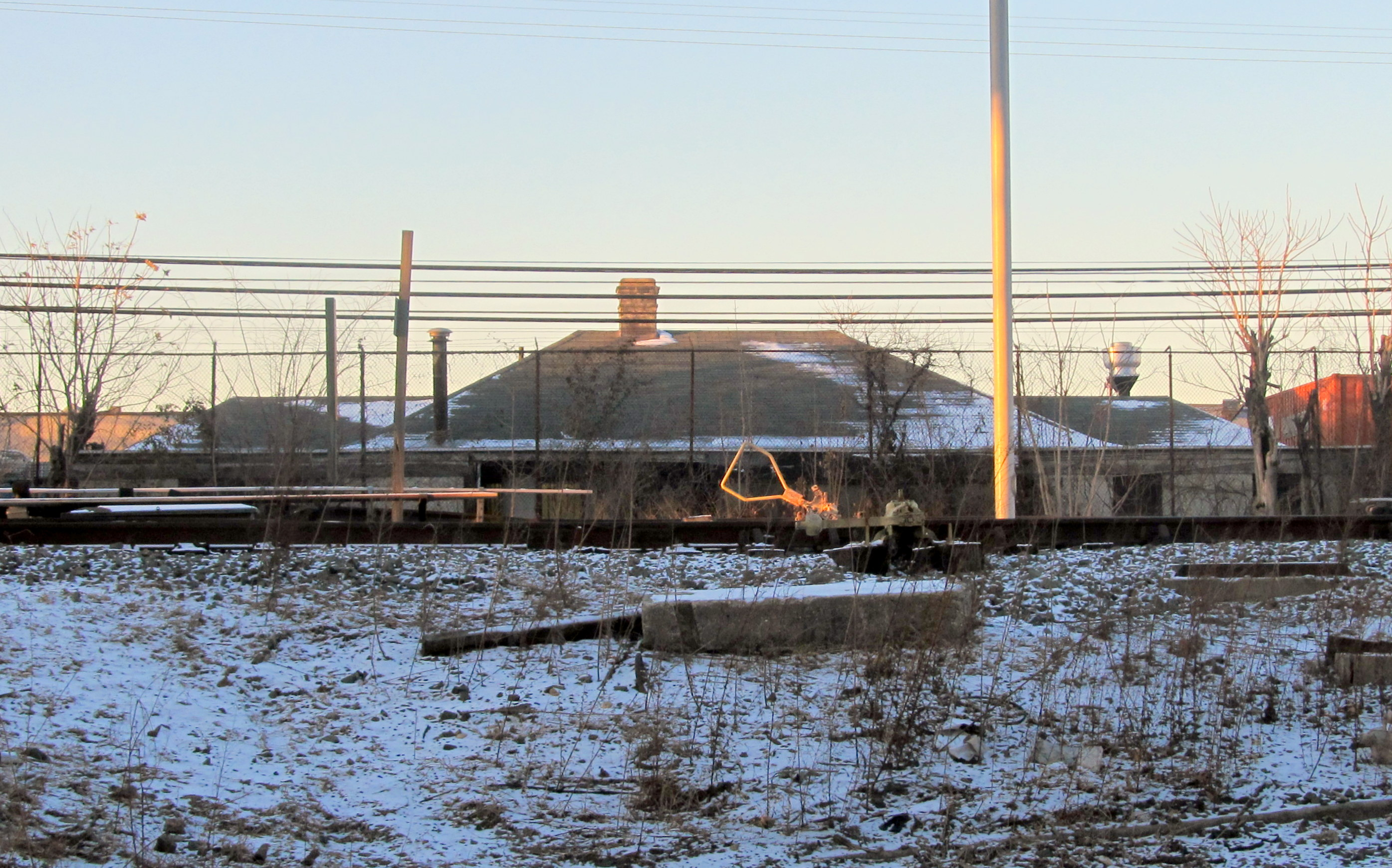 Former Hillside station building in December 2017